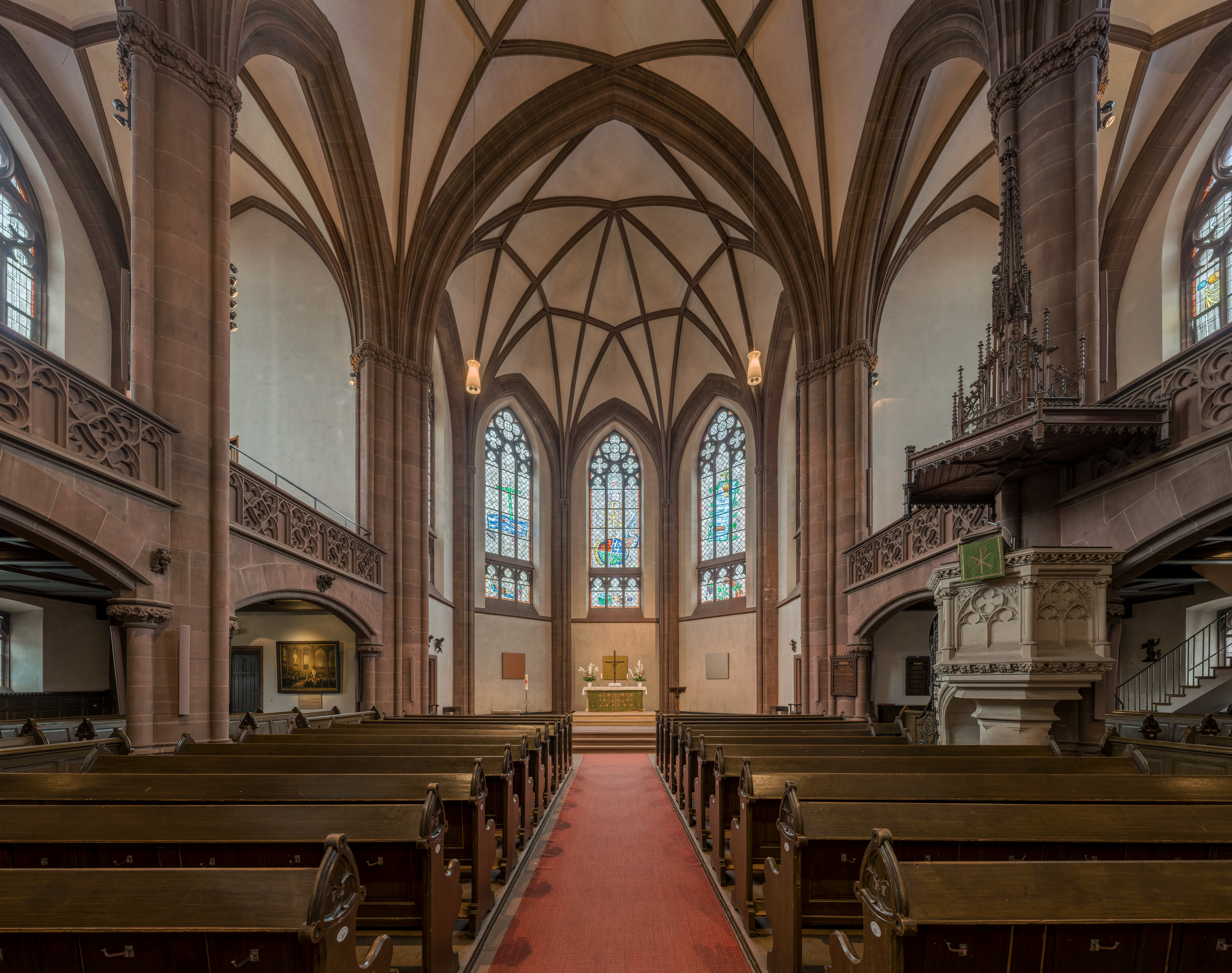 The nave of the Dreikönigskirche, Frankfurt